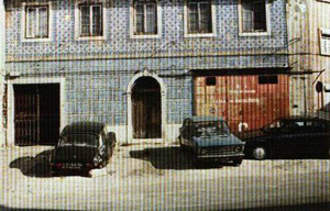 AHBVPA-Quartel03